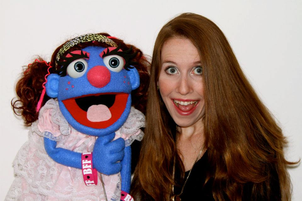 Puppet character Bleeckie and Leslie Madeline Fleming, her puppeteer, both pose with wide-eyed expressions.